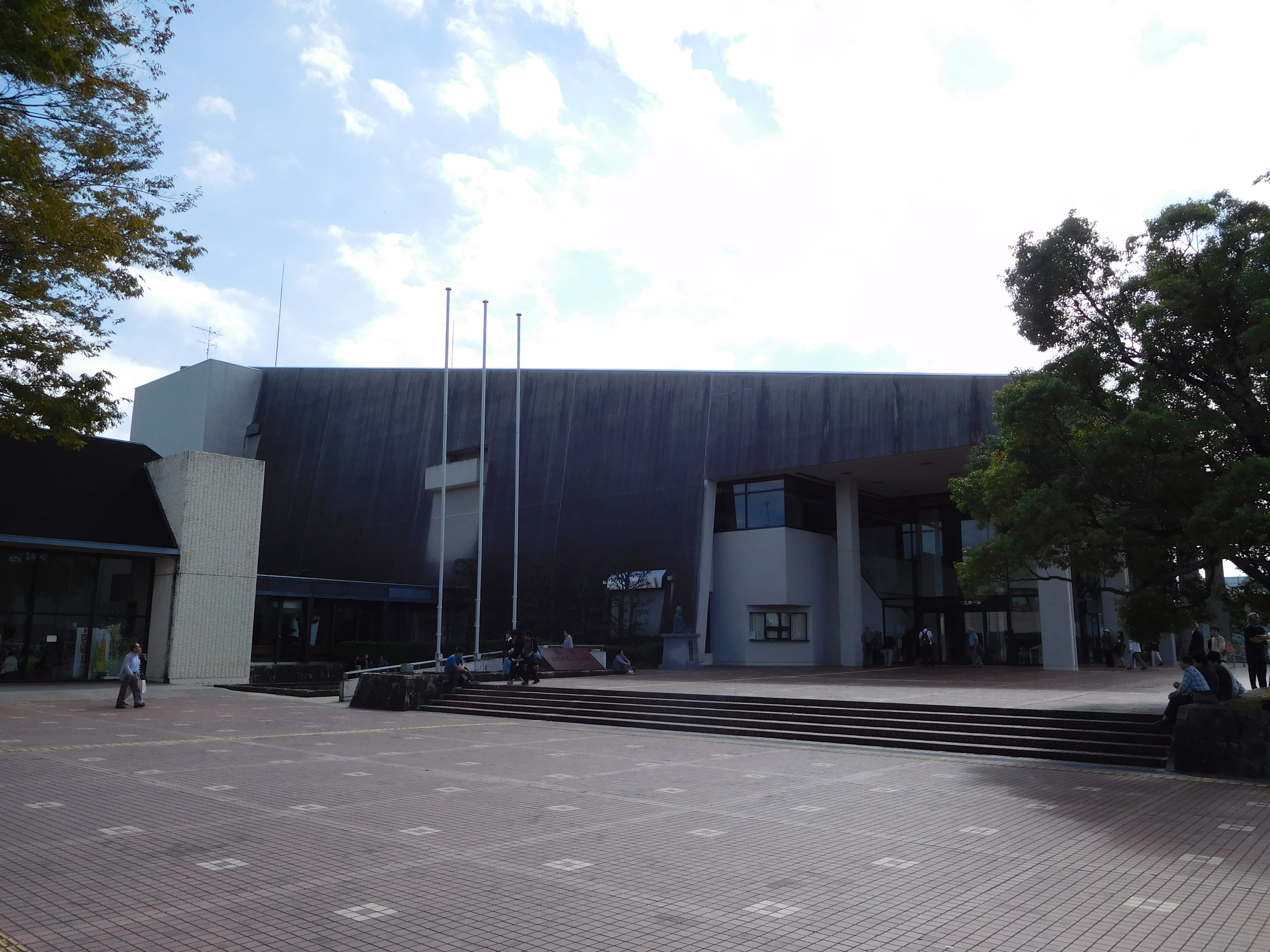 This is the Kuragi Culture Hall or Matsusaka Citizen Culture Hall in Matsusaka, Mie, Japan.